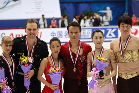 The pair skating at the 2009 Cup of China. From left: Tatiana Volosozhar / Stanislav Morozov (3nd), Shen Xue / Zhao Hongbo (1st), Zhang Dan / Zhang Hao (2rd)